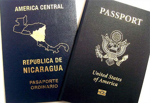 A dual citizen may bear two passports.